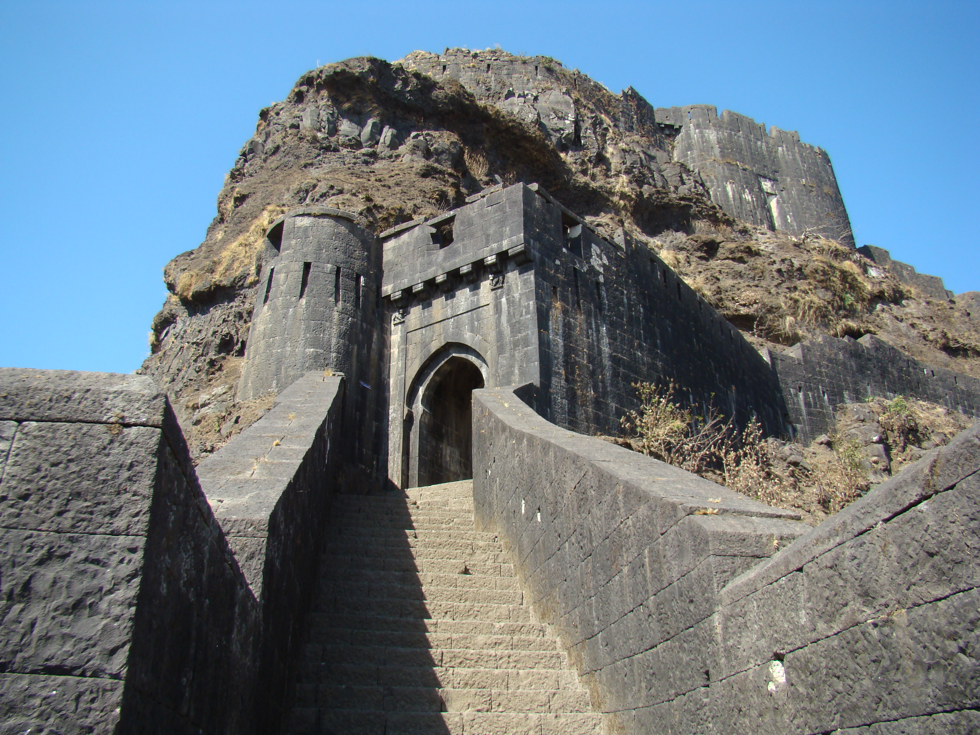 Lohagad Fort